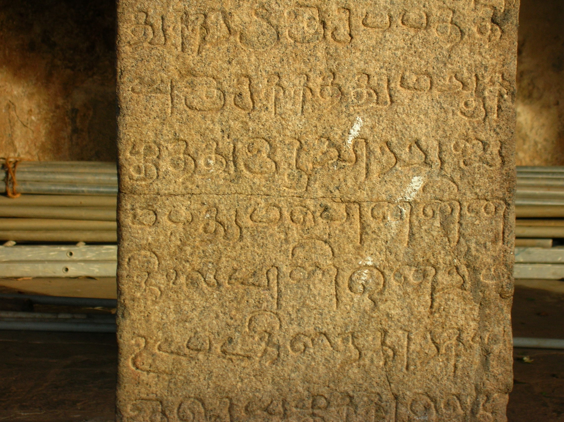 Tamil inscription from the Brihadeeswara Temple, Thanjavur belonging to the 11th century AD